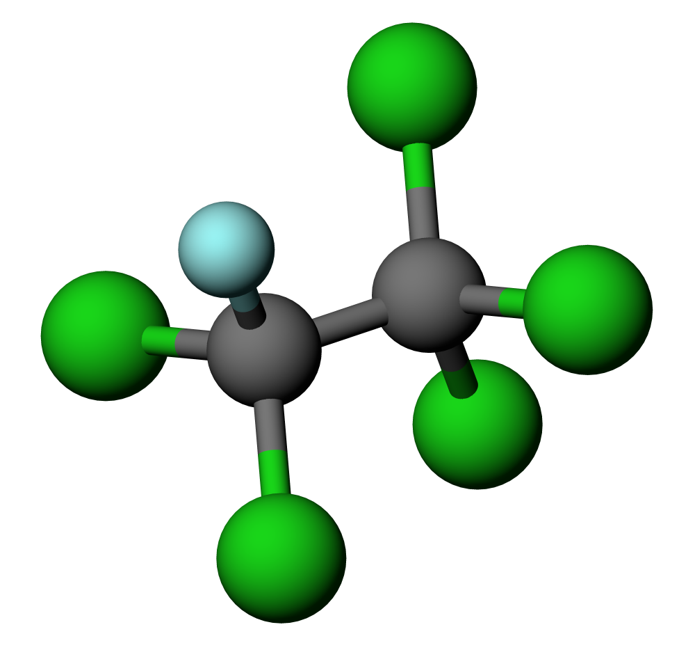 Chemical structure of pentachlorofluoroethane